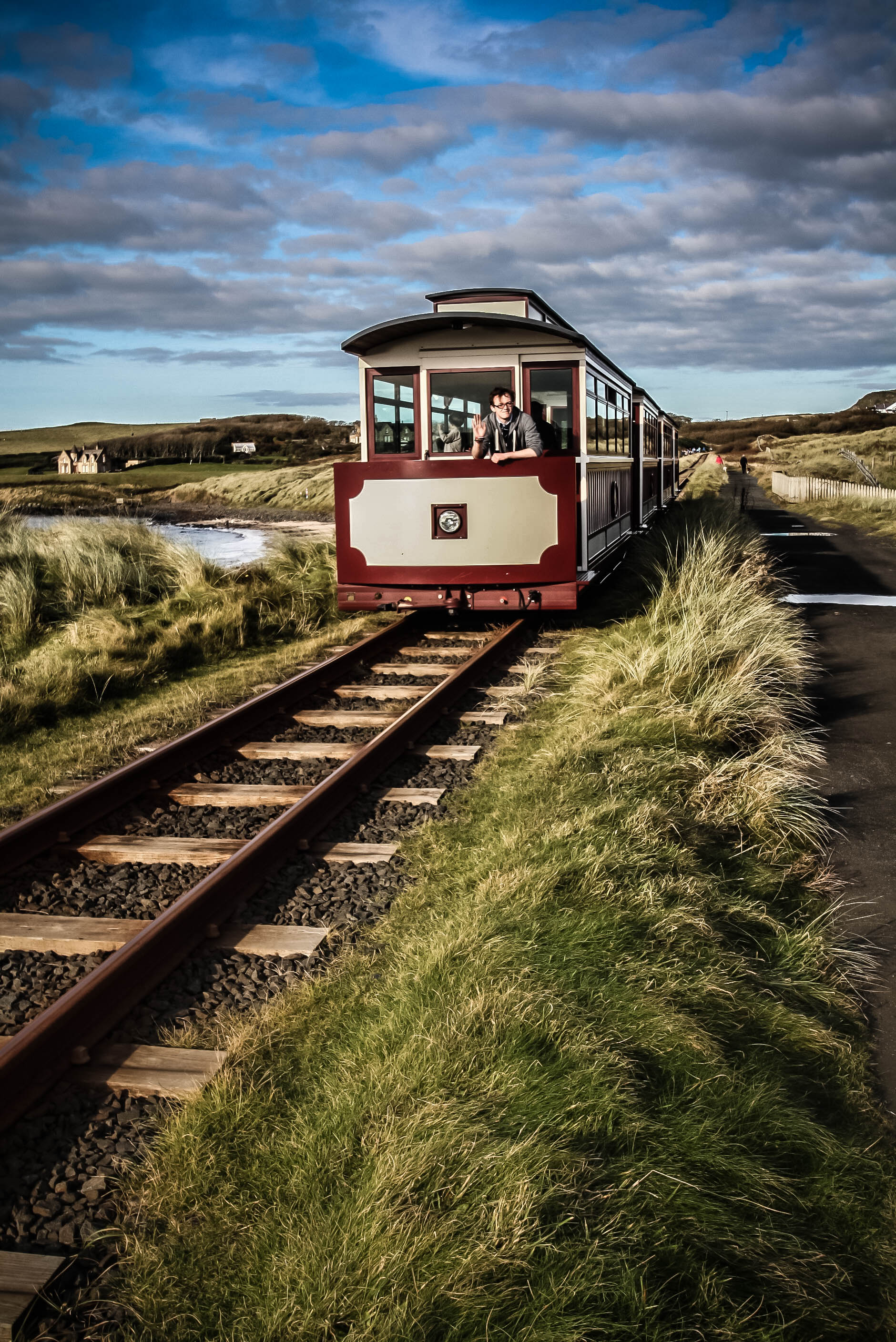 Giant’s Causeway Narrow Gauge Tram @ Runkerry Beach